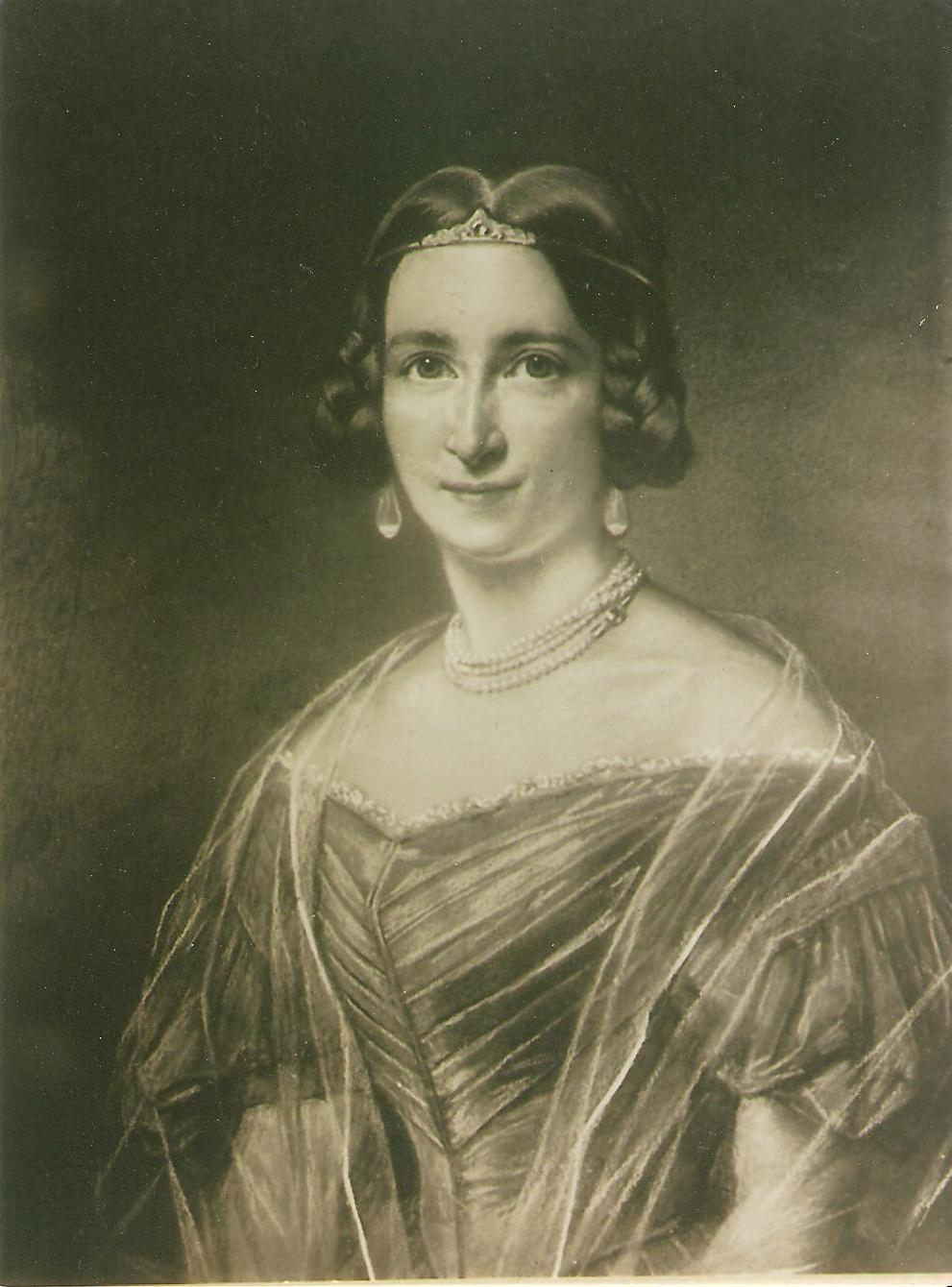 Therese Concordia Gierke geb. Zitelmann 1809-1855